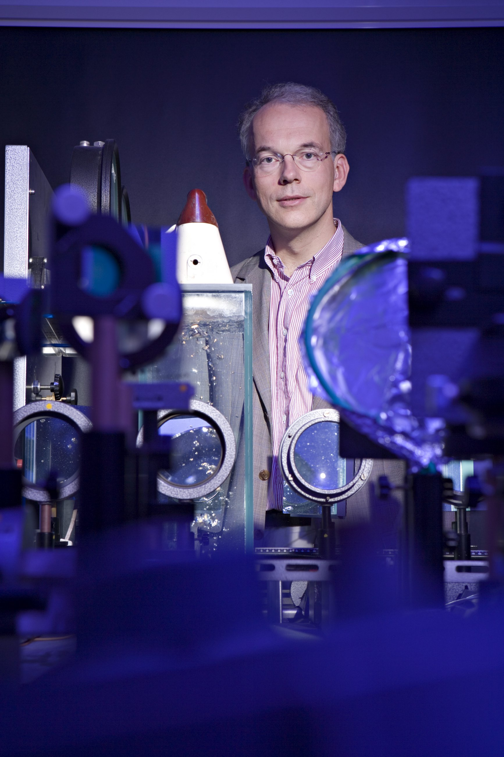 German physicist Detlef Lohse, Spinoza Prize Laureate 2005